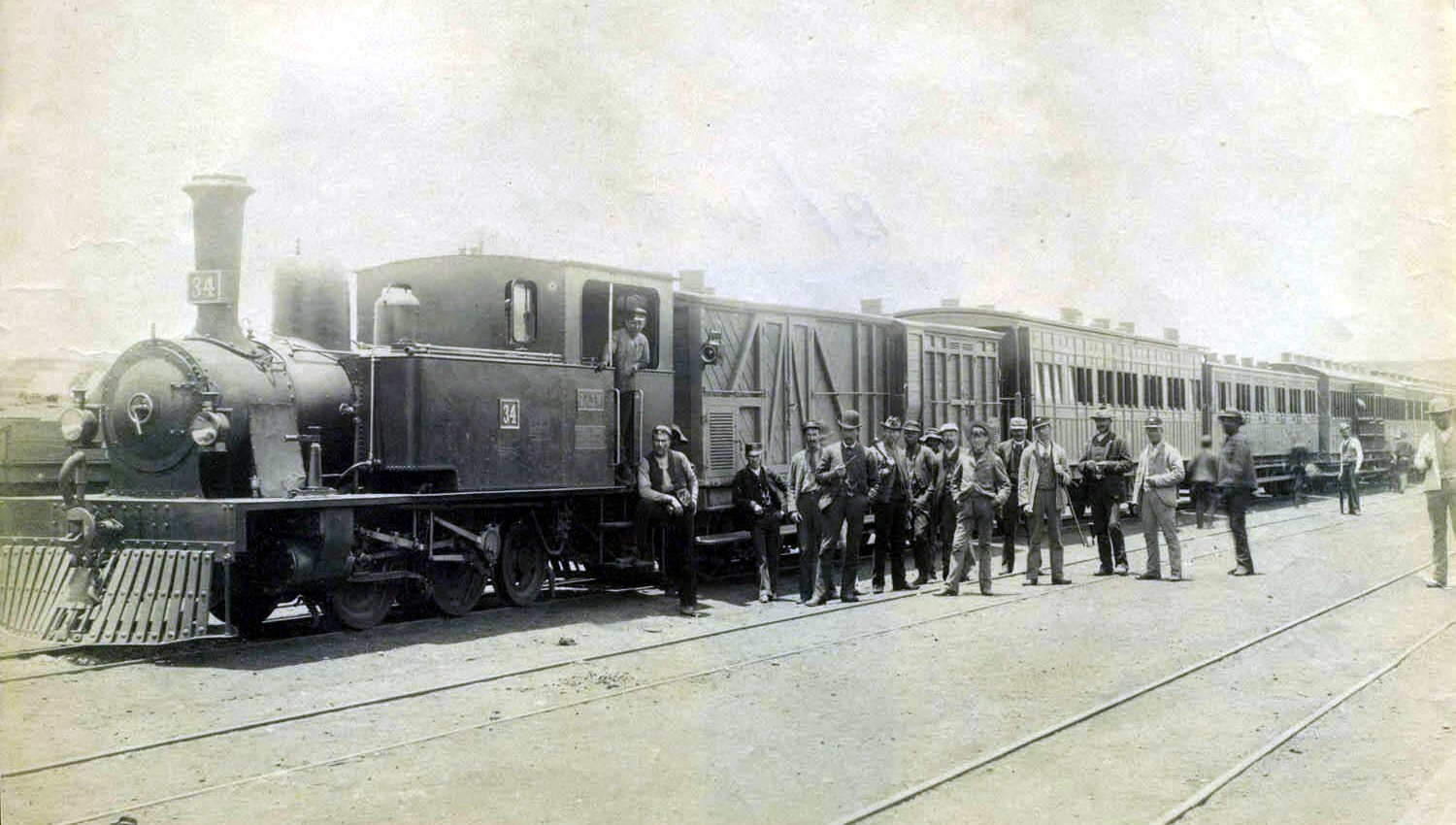 NZASM 19 Tonner no. 34 (0-4-2T) at Johannesburg Station on the first train to reach Johannesburg from Cape Town